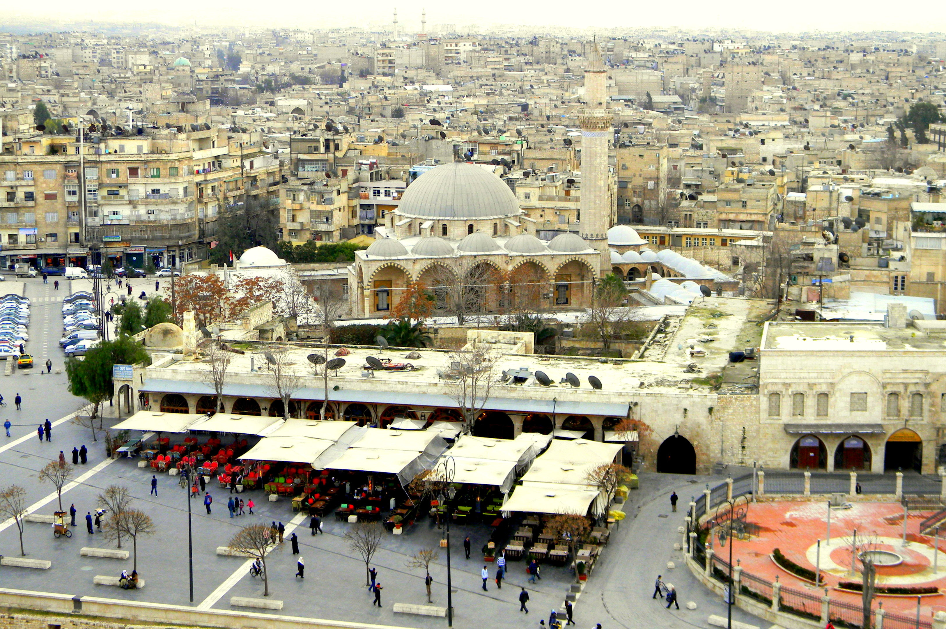 Al-Khusruwiyah mosque